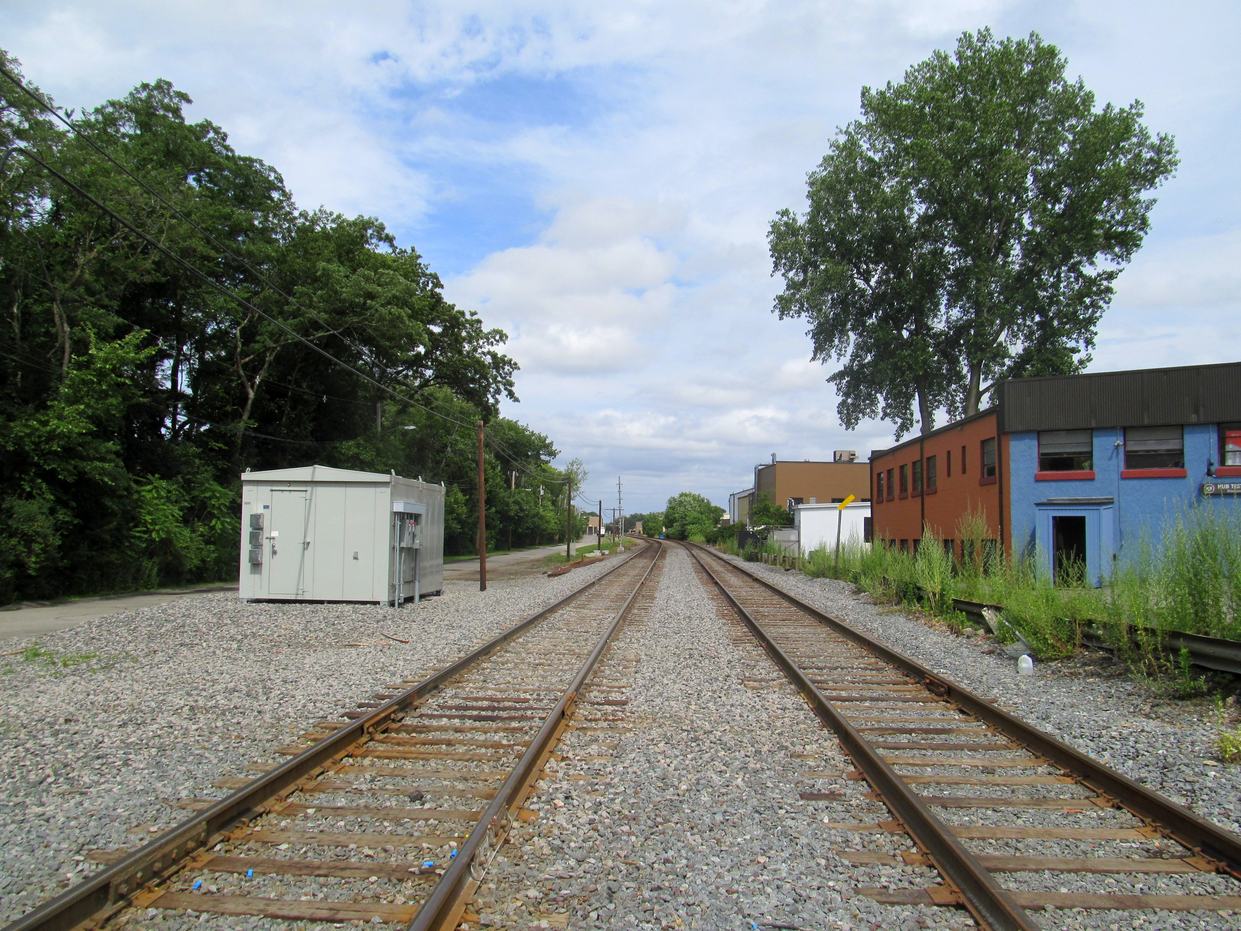 The former site of Clematis Brook station, which would have been located on the left side of the frame, photographed in July 2015